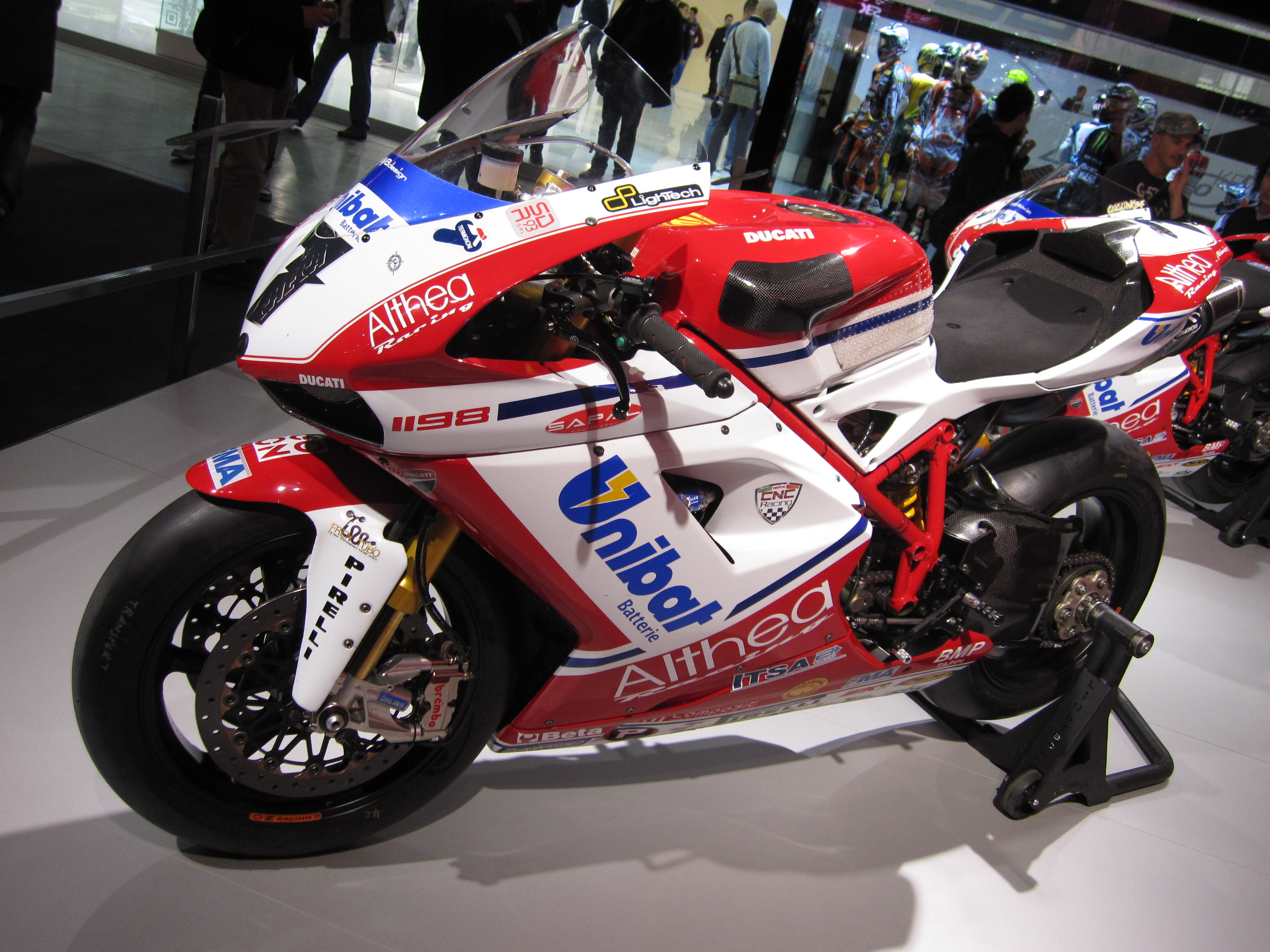 Ducati 1198 superbike used by Carlos Checa in the 2011 Superbike world championship. Picture taken at the Milan Motorcycle show 2011 (EICMA)